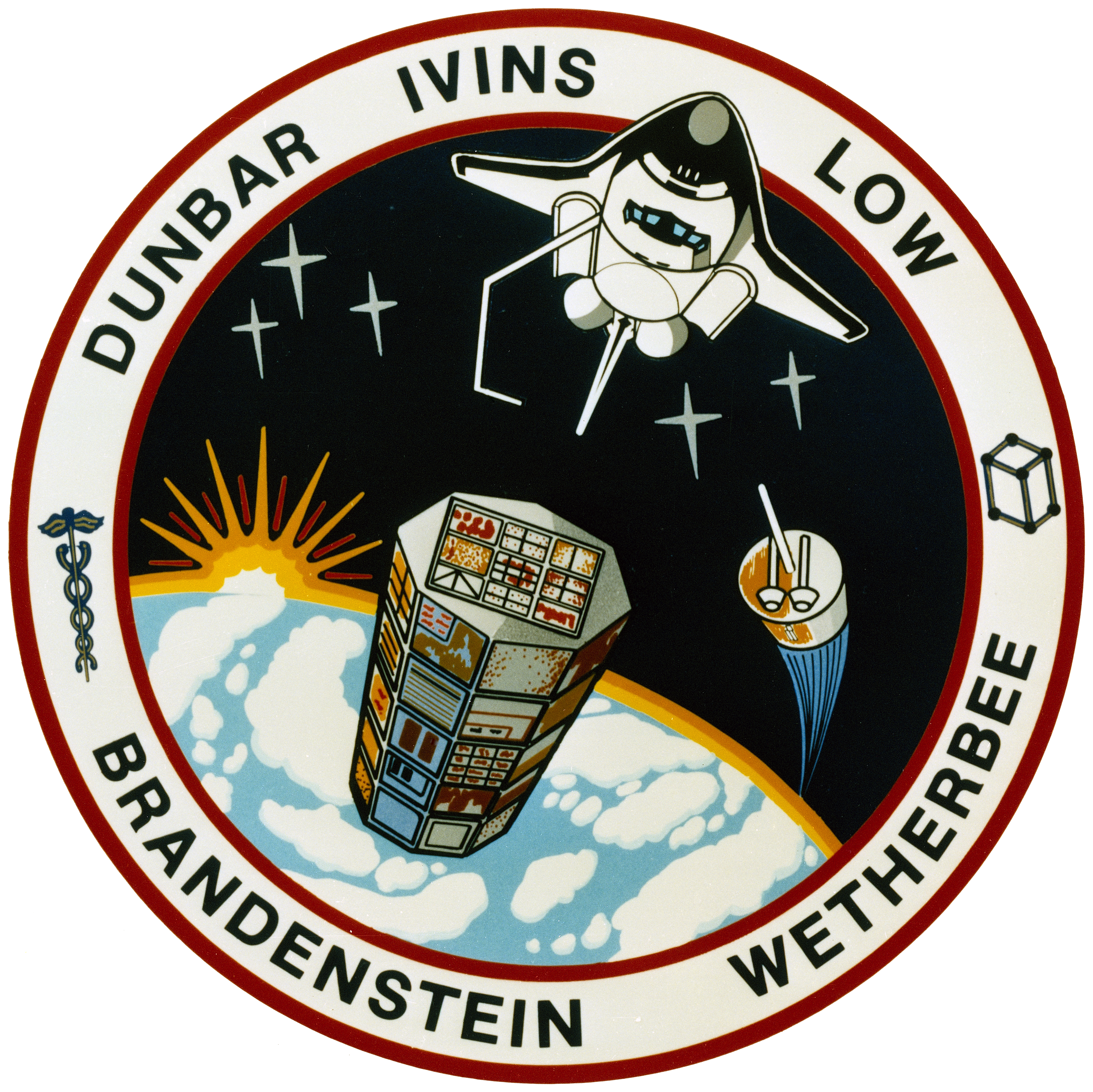 STS-32 Mission Insignia The STS-32 patch, designed by the five crewmembers for the January, 1990 space mission, depicts the Space Shuttle orbiter rendezvousing with the Long Duration Exposure Facility (LDEF) satellite from above and the Syncom satellite successfully deployed and on its way to geosynchronous orbit. Five stars represent the mission number with three on one side of the orbiter and two on the other. The seven major rays of the sun are in remembrance of the crewmembers for STS 51-L. In preparation for the first Extended Duration Orbiter (EDO) missions, STS-32 conducted a number of medical and middeck scientific experiments. The caduceus on the left represents the medical experiments, and the crystalline structure on the right represents the materials science. The crew is comprised of Astronauts Daniel C. Brandenstein, James D. Wetherbee, Bonnie Dunbar, Marsha S. Ivins, and G. David Low.